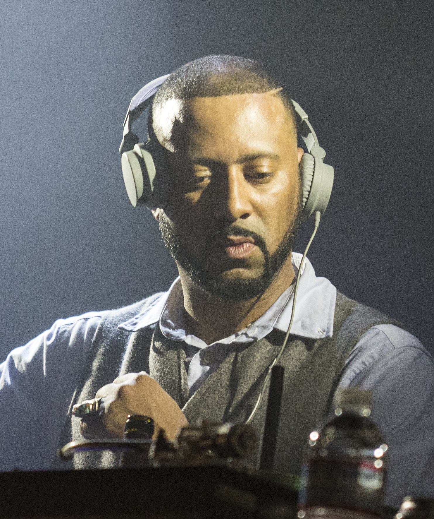 American producer Madlib at Echoplex, March 28, 2014